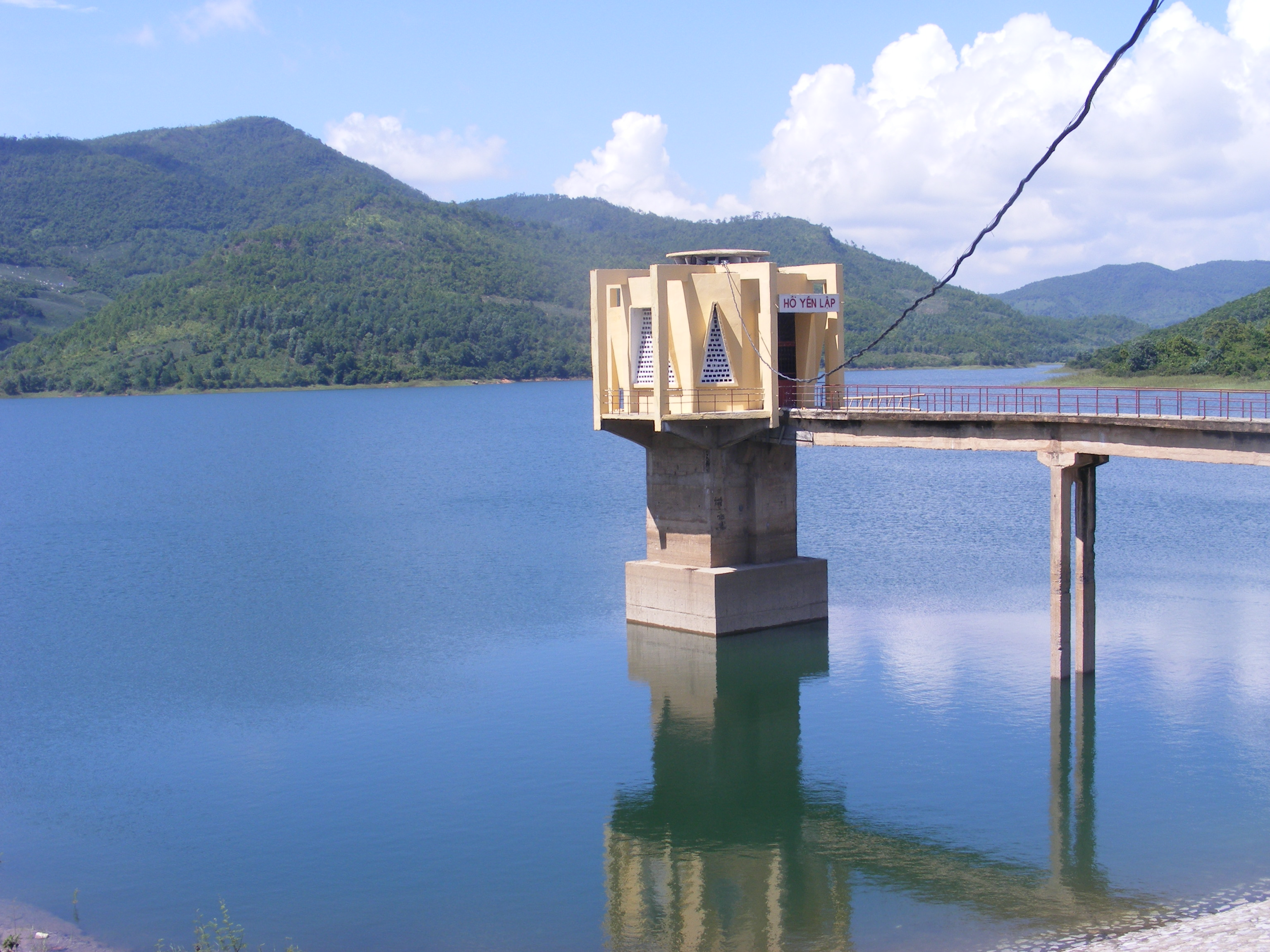 Yên Lập Lake